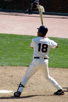 Photo of Moises Alou at bat. Taken by Nick Ball. Please notify me of any use of this image. 09:05, 28 October 2005 . . NickBall . . 267×400 (15 KB)